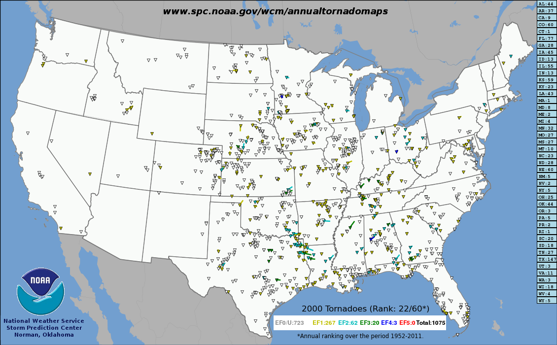 Tracks of all tornadoes that touched down in the United States in 2000. Tornadoes are color-coded by their Fujita Scale ranking